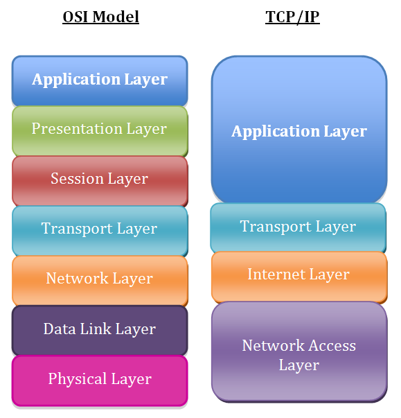 OSI Model Application Layer compared to the TCP/IP Application Layer.